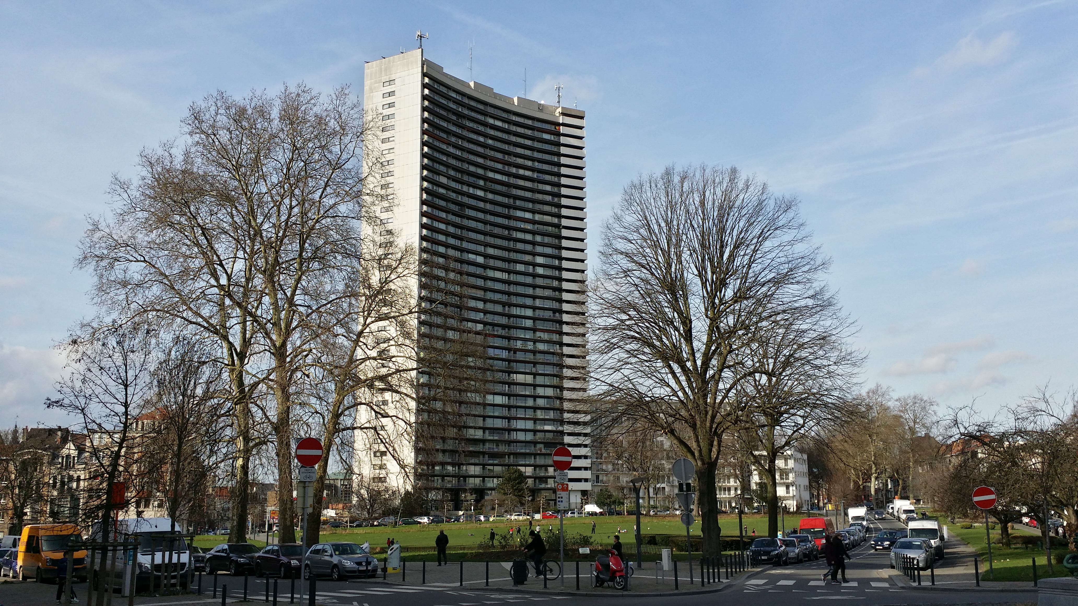 Brusilia tower in Schaarbeek